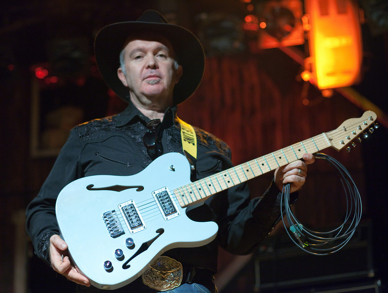 Composer Steve Kirk at Zynga FarmVille party, San Francisco, October 2009